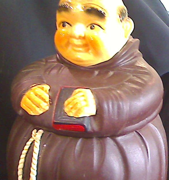 A sculpture of a little jolly monk.